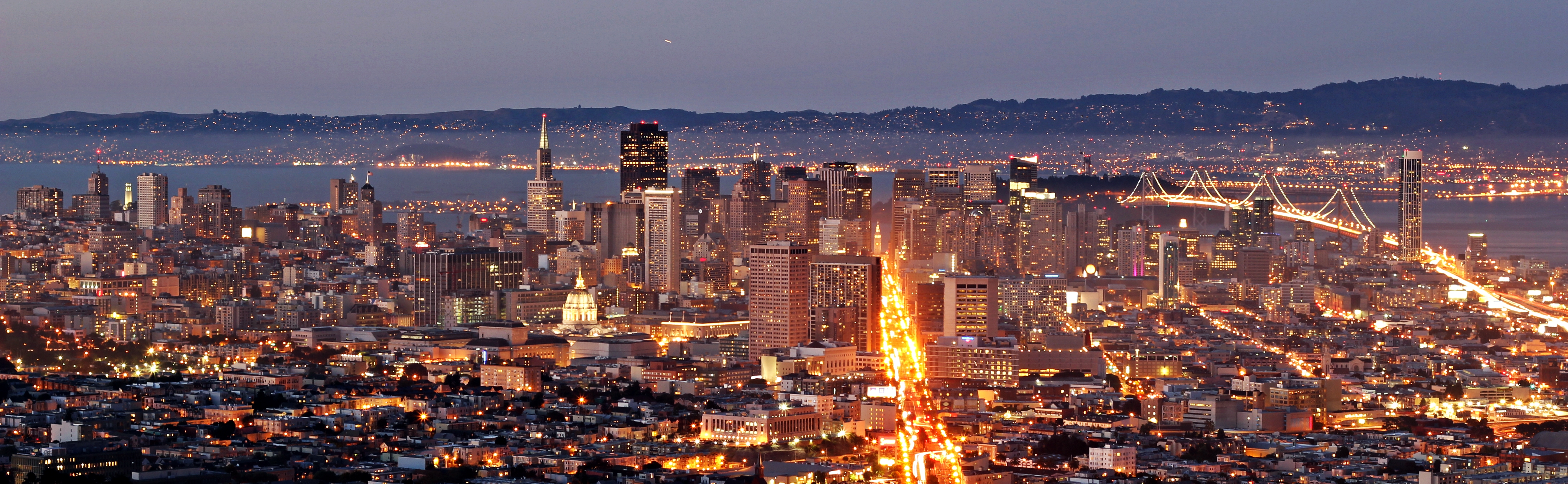 View of San Francisco from Twin Peaks